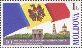 Stamp of Moldova